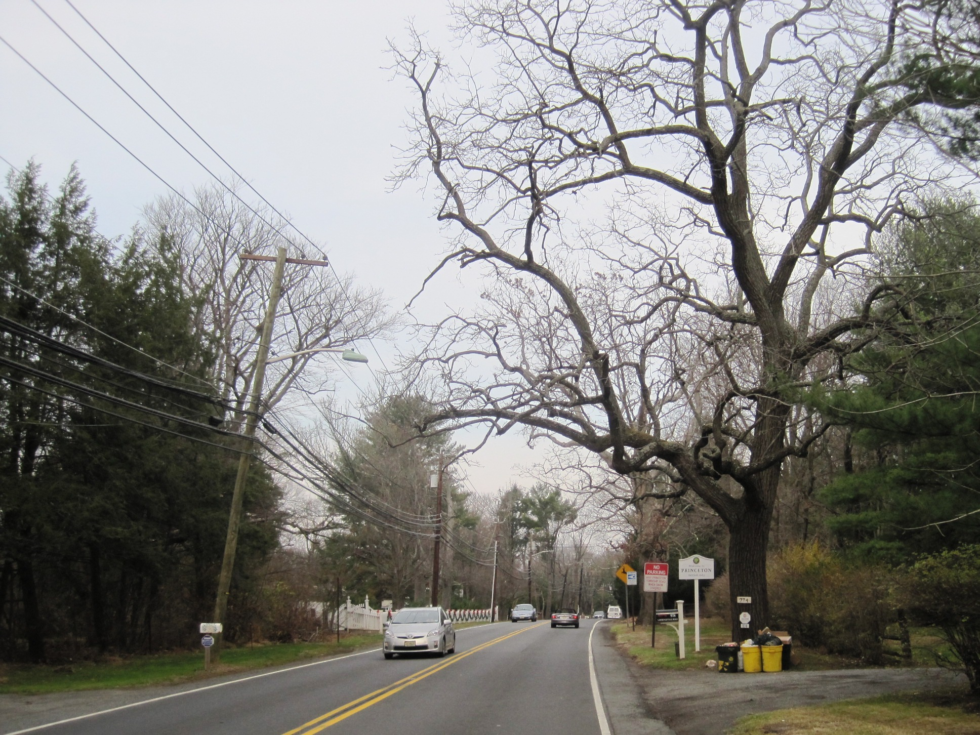 Photo of Coxs Corner, New Jersey, an unincorporated community on the border (Keith line) of Lawrence Township and Princeton in Mercer County. Photo taken along northbound U.S. Route 206.